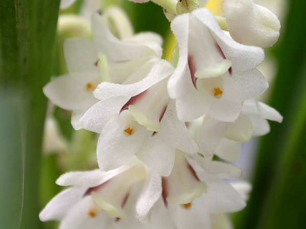 Bryobium hyacinthoides